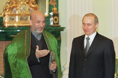 THE KREMLIN, MOSCOW. President Putin with Hamid Karzai, head of the interim administration of Afghanistan.